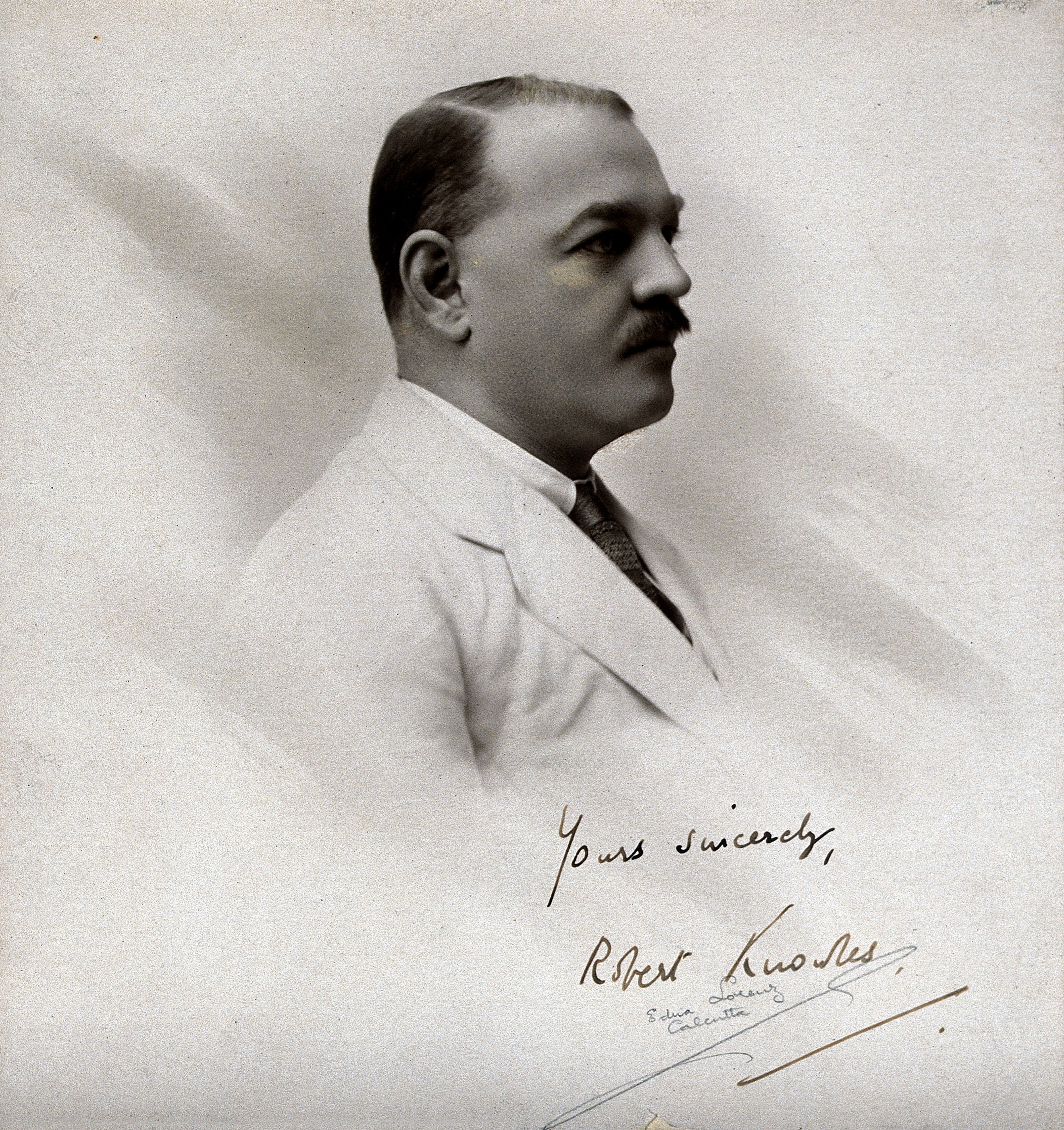 Robert Knowles. Photograph by Edna Lorenz, Calcutta. Iconographic Collections Keywords: portrait photographs